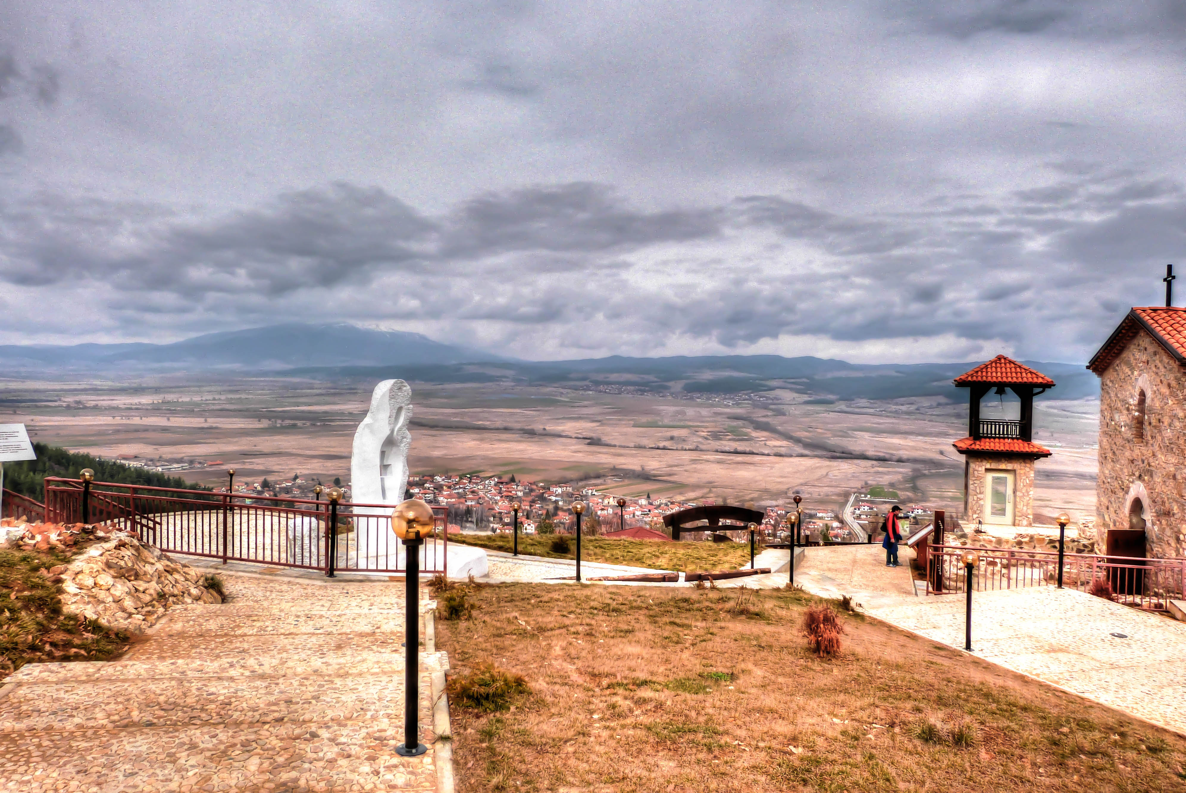 Newly restored fortress Tsari Mali Grad, Belchin, Bulgaria